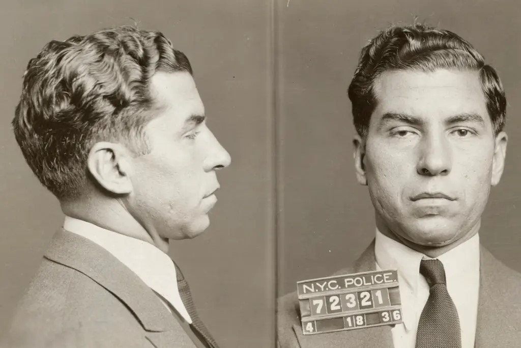 Mugshot of Charles Luciano at 1936,Italian-American mobster